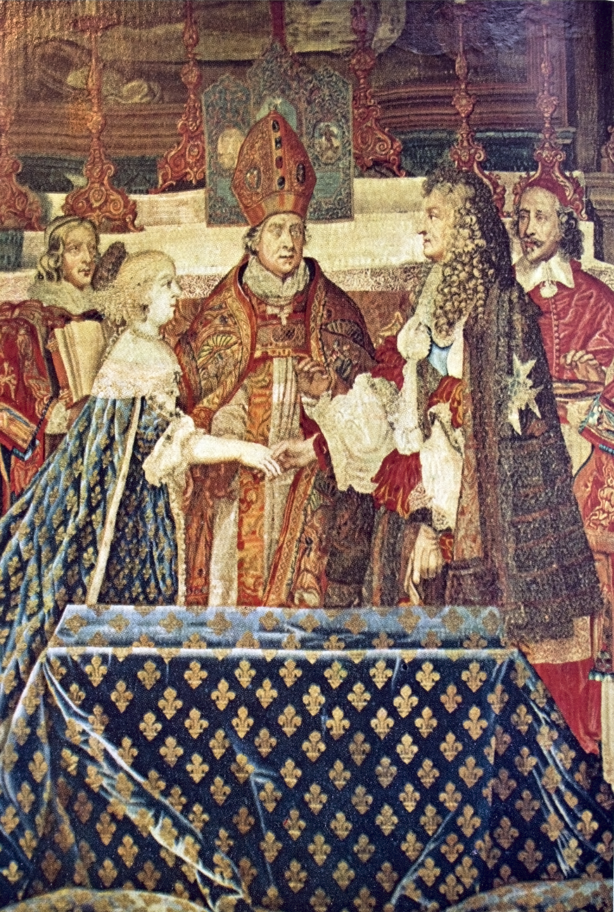 Marriage of Louis XIV with Marie-Therese of Austria